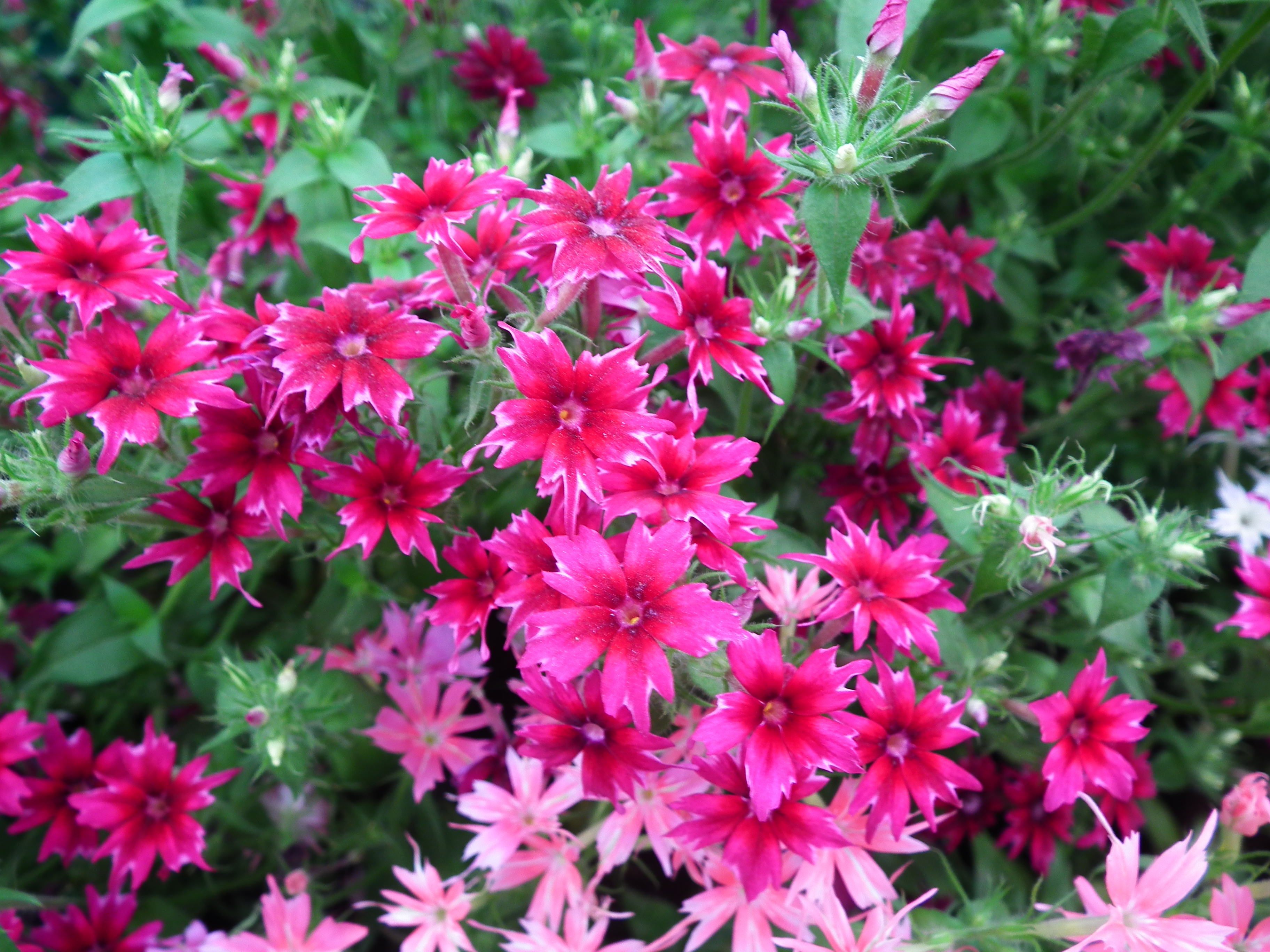 star Phlox (Phlox twinkle) at Lalbagh Flower Show - August 2012